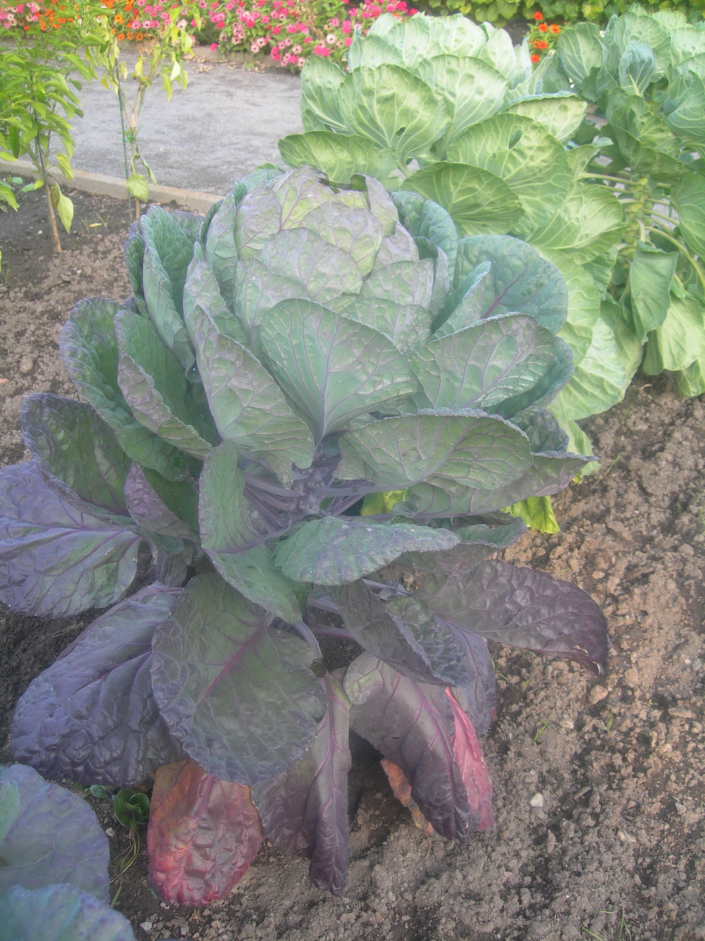 Brussels sprouts